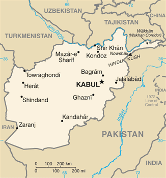 Ethnolinguistic groups of Afghanistan in 1997